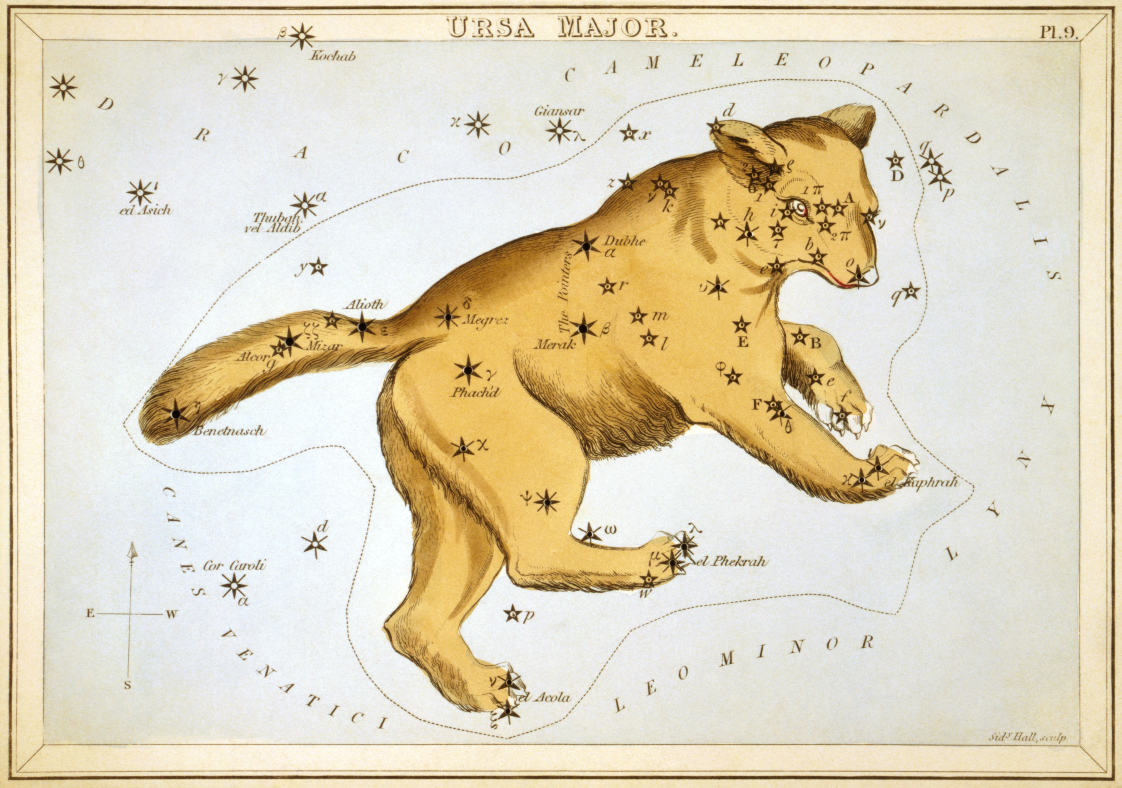 "Ursa Major", plate 9 in Urania's Mirror, a set of celestial cards accompanied by A familiar treatise on astronomy ... by Jehoshaphat Aspin. London. Astronomical chart, 1 print on layered paper board : etching, hand-colored.